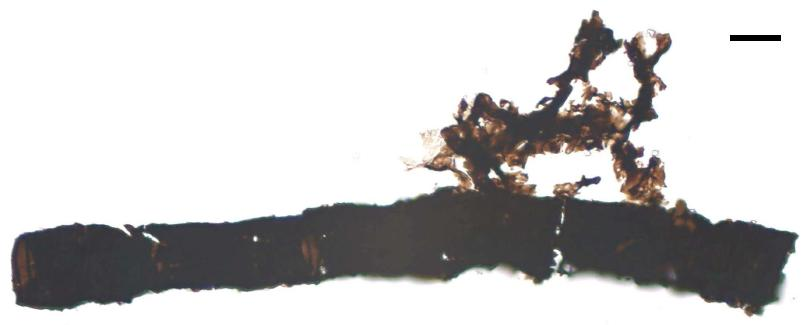 A banded tube, with possible fungal? growths. Banding just visible under charcoal - specimen is uncleared. From the "fish beds" of Silu-Devonian Kerrera, Scotland. Scale bar is 20μm